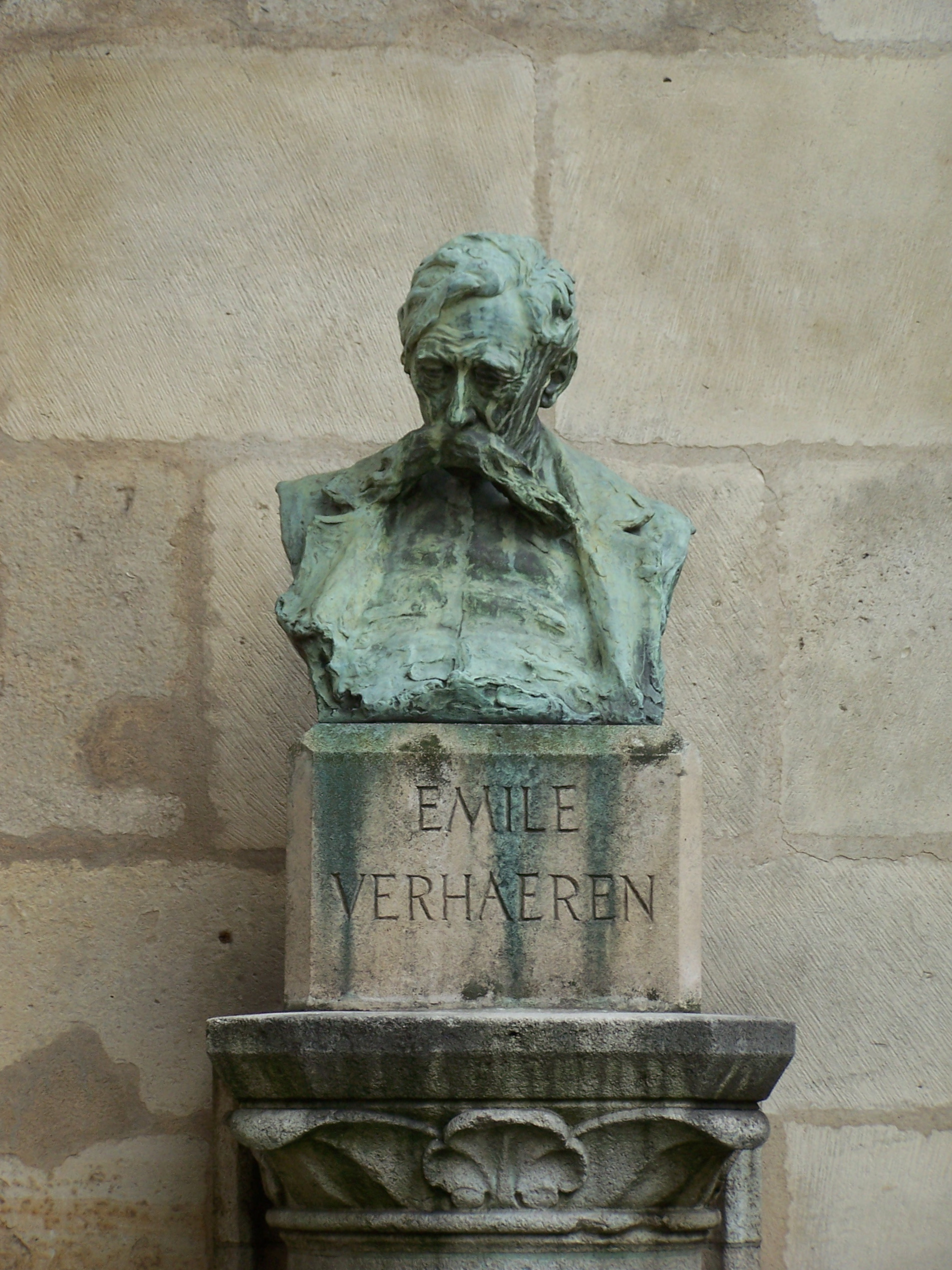 Sculpture of belgian poet Émile Verhaeren at square André-Lefèbvre in Paris